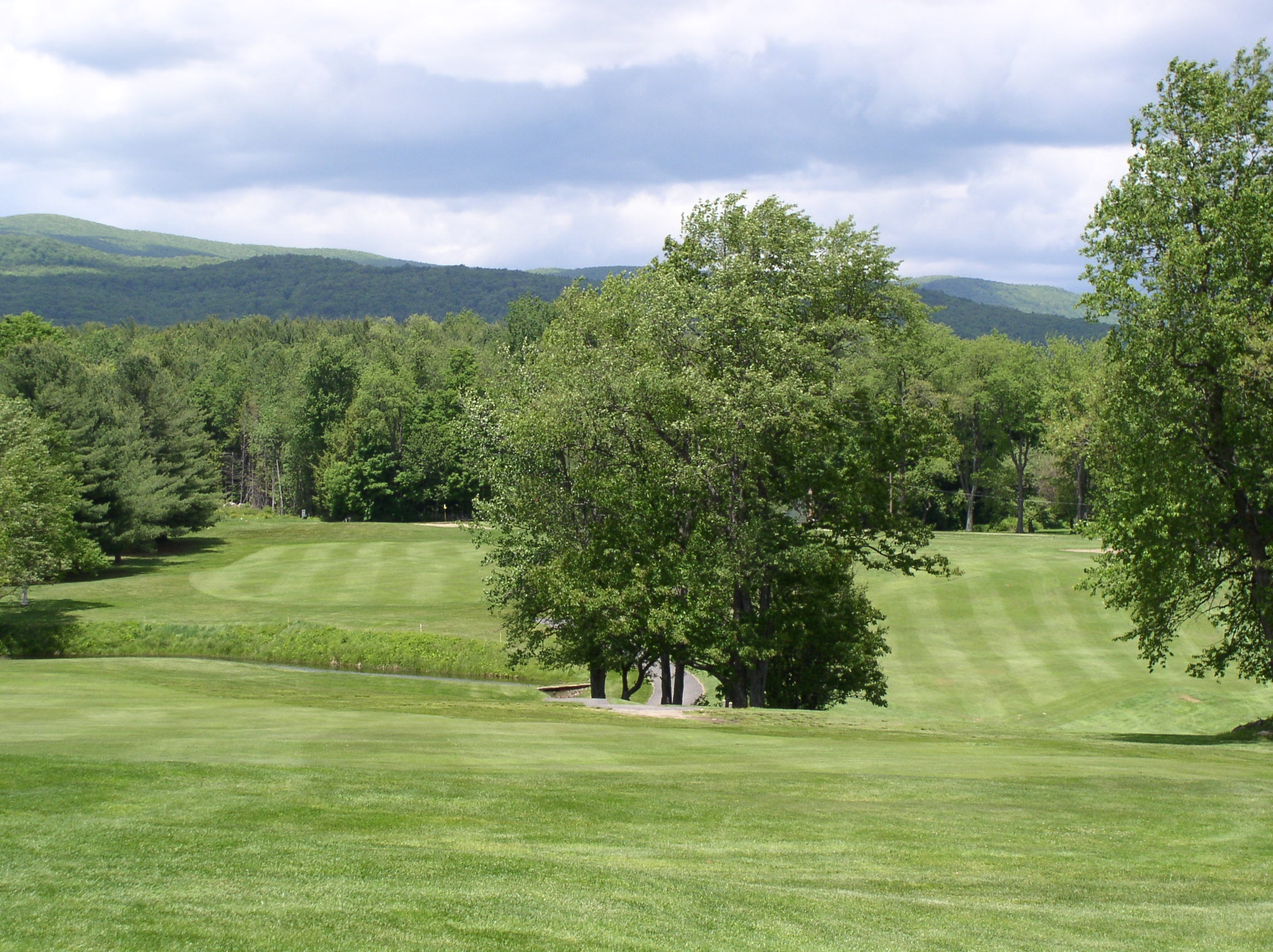 Looking down the 5 hole on the left, and looking up the 7th hole on the right